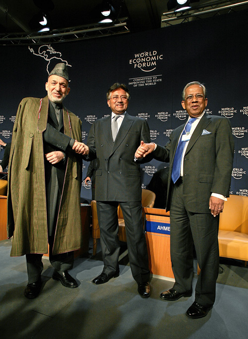 DAVOS/SWITZERLAND, 24JAN08 - Hamid Karzai (L), President of Afghanistan, Pervez Musharraf (C), President of Pakistan and Fakhruddin Ahmed, Chief Adviser (Prime Minister) of Bangladesh join their hands during the session 'The Quest for Peace and Stability' at the Annual Meeting 2008 of the World Economic Forum in Davos, Switzerland, January 24, 2008.